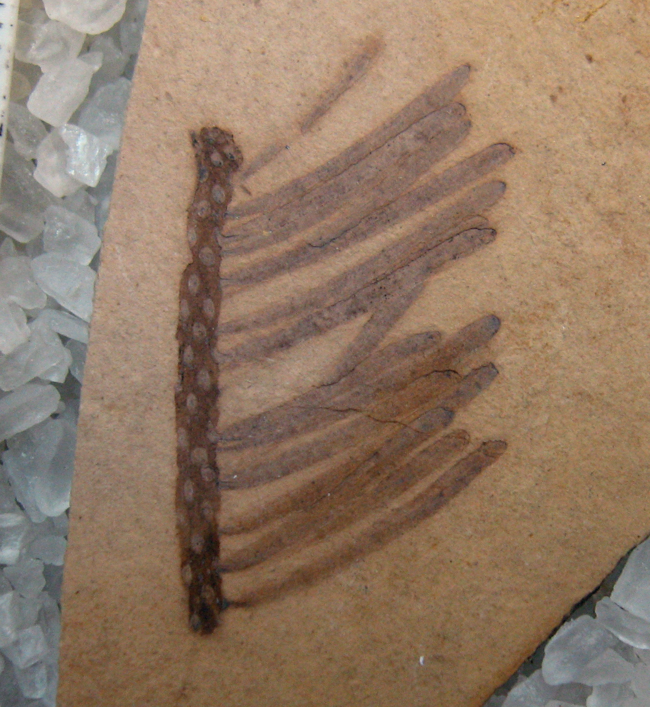 Abies milleri foliage. A 3cm tall twig section with needles and showing distinct circular needle scars. Eocene, 49 million years old, "unnamed site", Klondike Mountain Formation, west of Curlew, Washington, USA. Stonerose Interpretive Center Collection # SR 86-52-02 A